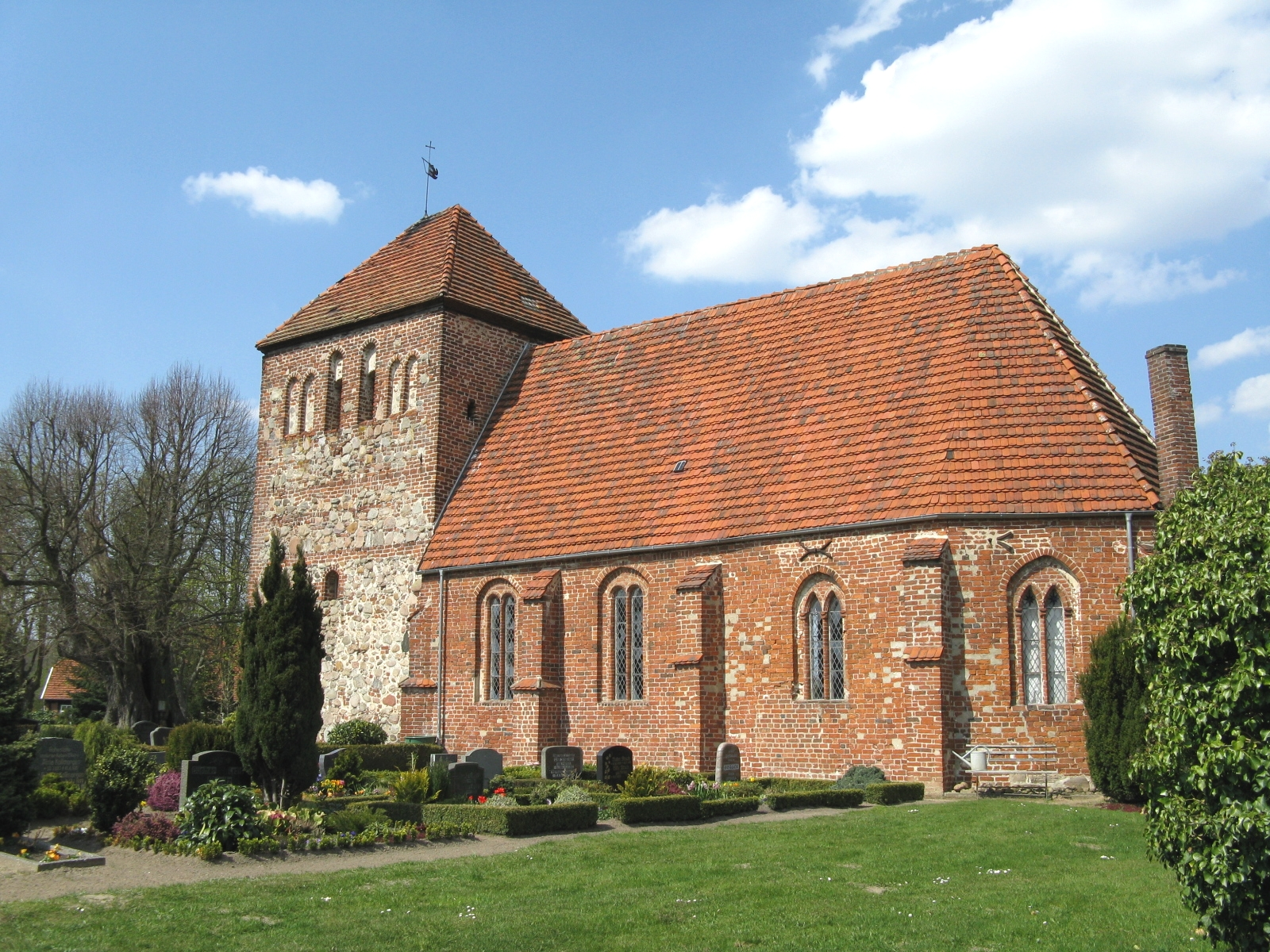 Church in Slate, Mecklenburg-Vorpommern, Germany